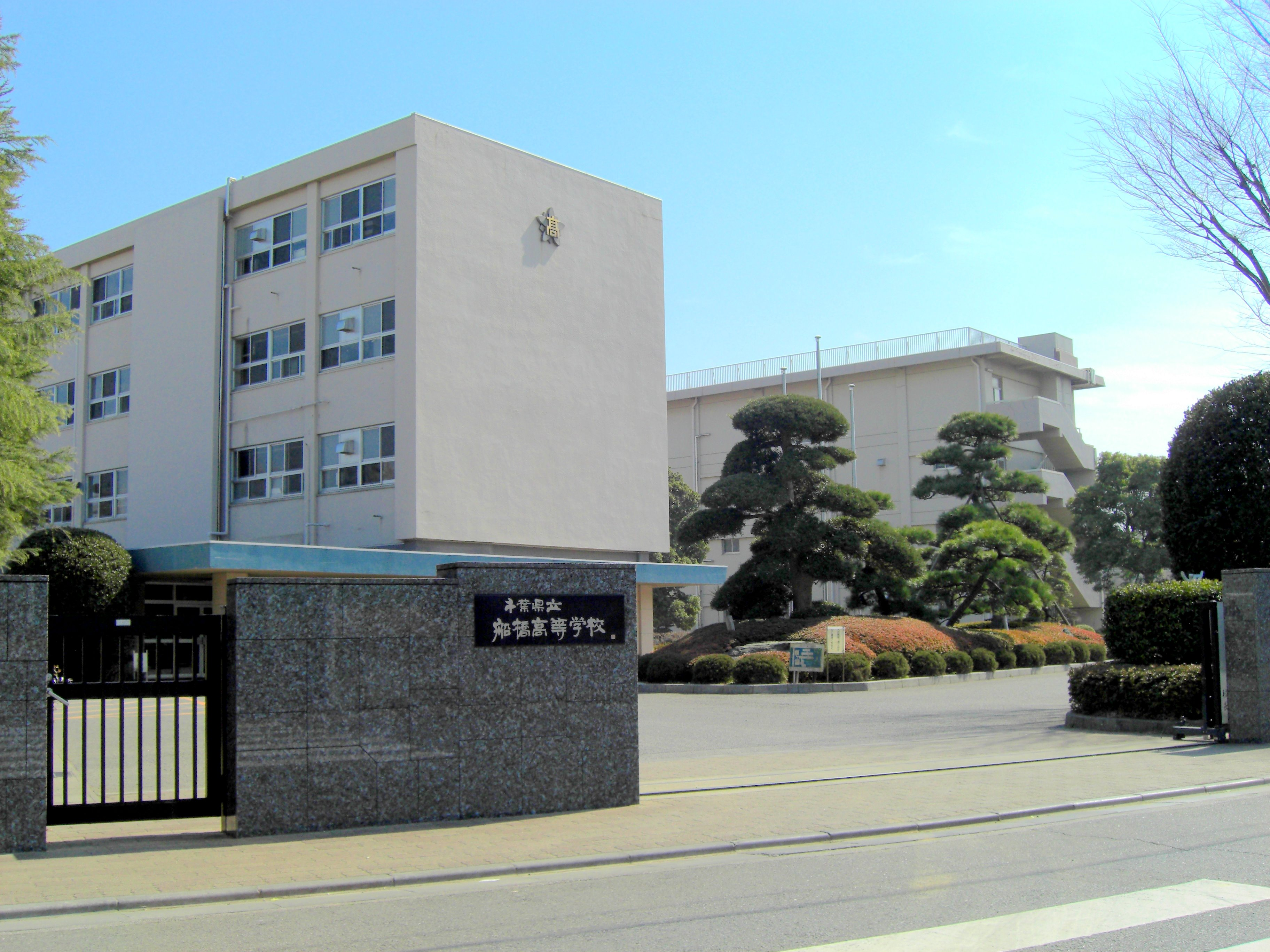 Chiba Prefectural Funabashi Senior High School